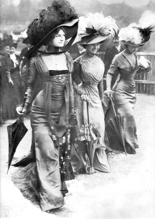 Ladies at the Hippodrome de Longchamp, Paris 1908